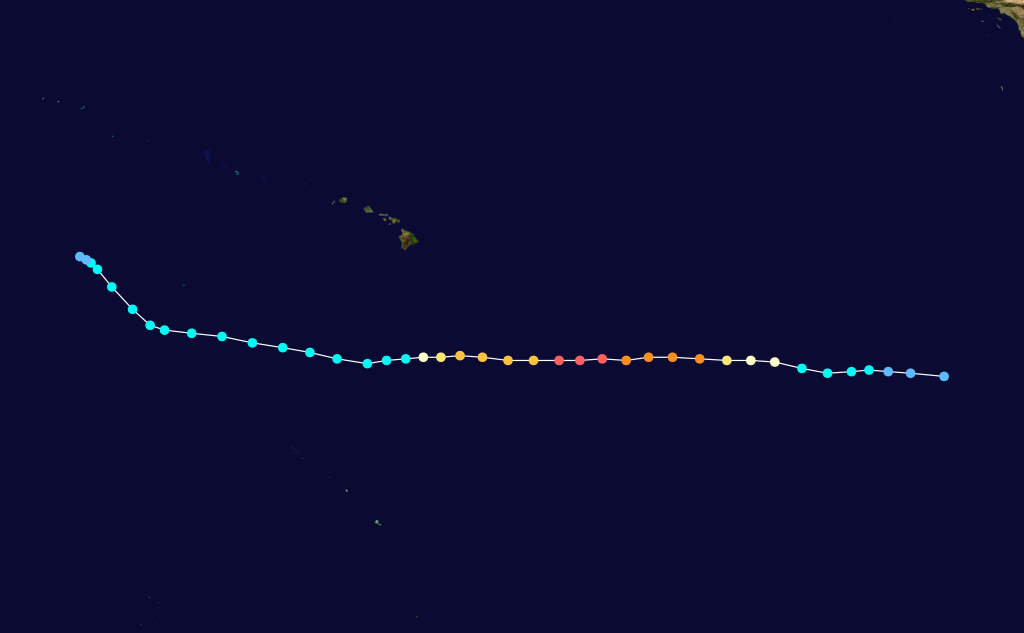 Hurricane Gilma (1994) track. Uses the color scheme from the Saffir-Simpson Hurricane Scale.